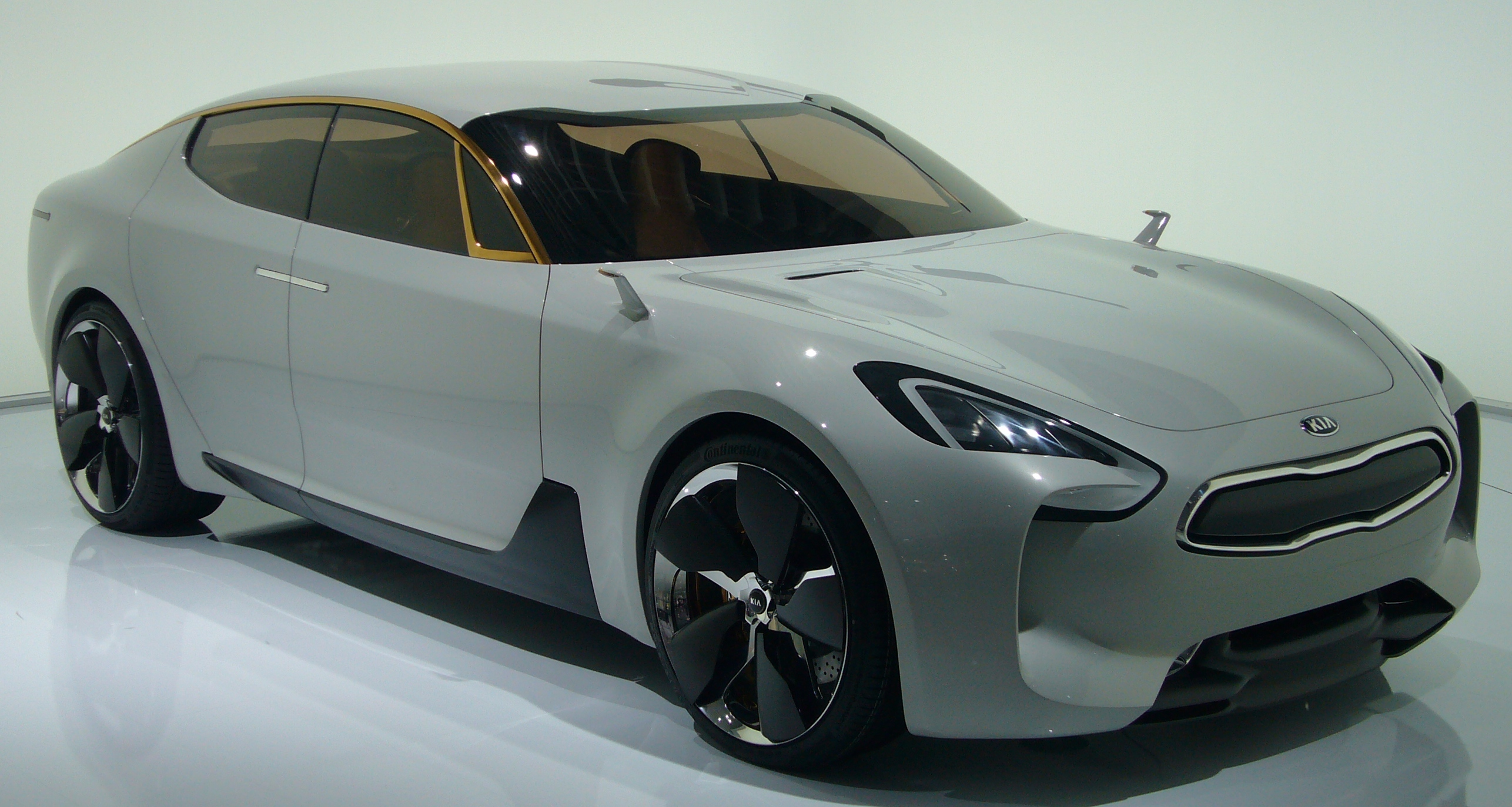 Kia GT Concept at IAA Frankfurt 2011